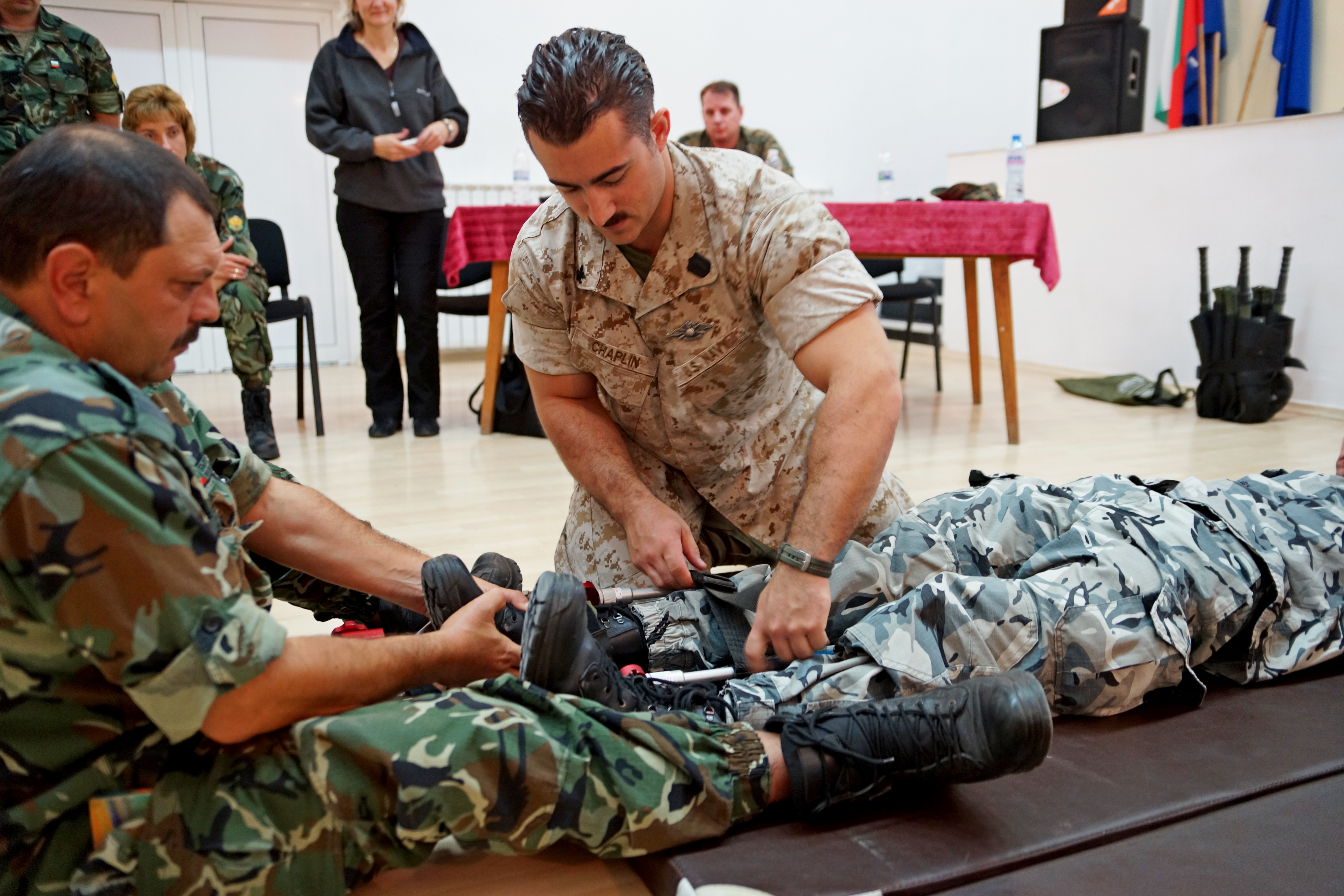 Combat Lifesaver Course